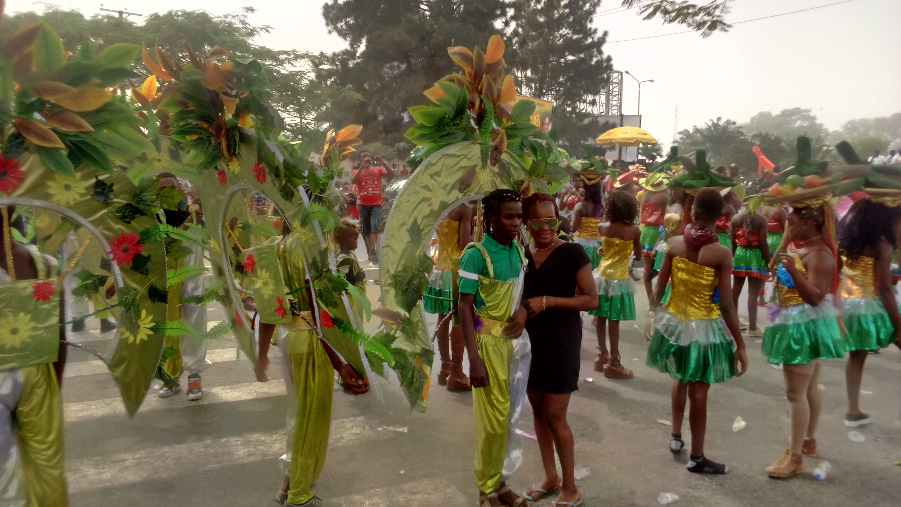 This is passion 4 band before d parade at the calabar festival (the largest street carnival in Africa) This is an image from Nigeria